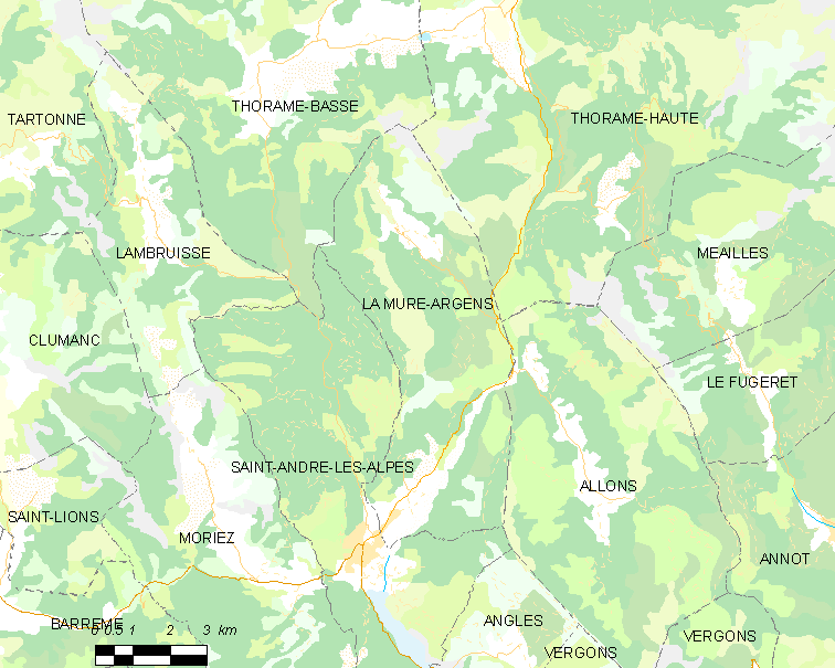 Map commune FR insee code 04136.png Légende